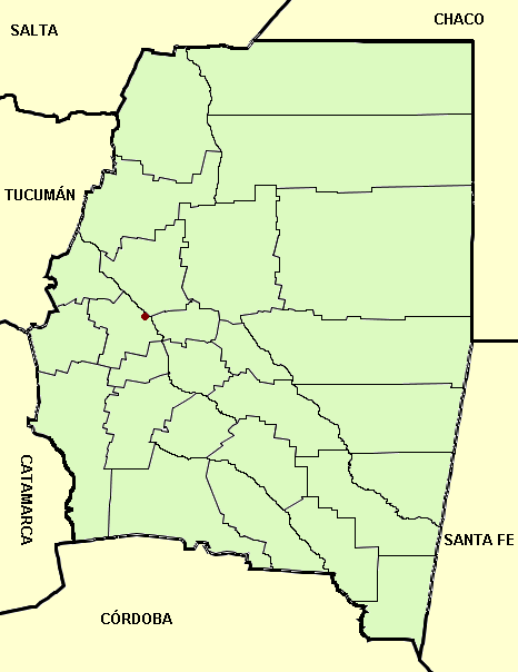 It shows administrative boundaries of Santiago del Estero province in Argentina, its departments and its capital (Santiago del Estero city).